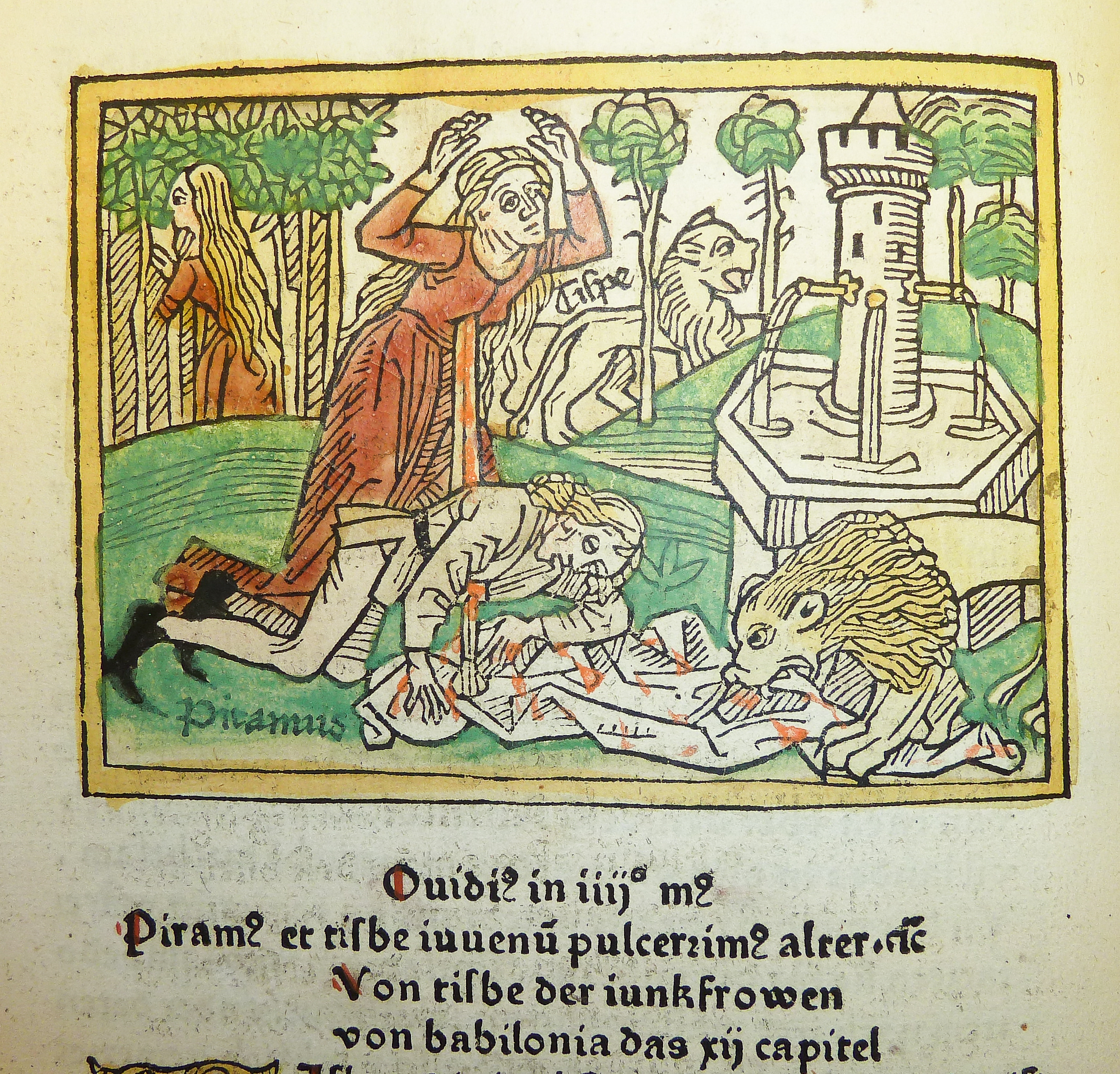 Woodcut illustration (leaf [c]5v, f. [xv]) of Pyramus and Thisbe, hand-colored in red, green, yellow and black, from an incunable German translation by Heinrich Steinhöwel of Giovanni Boccaccio's De mulieribus claris, printed by Johannes Zainer at Ulm ca. 1474 (cf. ISTC ib00720000). One of 76 woodcut illustrations (1 on leaf [e]8v dated 1473), each 80 x 110 mm., depicting scenes from the life of the women chronicled (for a full list of subjects, cf. W.L. Schreiber, Handbuch der Holz- und Metallschnitte des XV. Jahrhunderts (Nendeln: Kraus Reprints, 1969), no. 3506). "Pour la première moitie le nom se trouve inscrit à côte de la tête de chaque femme, pour le reste il es ajouté entre les deux réglettes. Il n'y en a que trois, qui n'ont qu'un seul trait carré."--Schreiber. Established form: Zainer, Johannes, ‡d d. 1541?. Established form: Pyramus (Legendary character) Established form: Thisbe (Legendary character) Penn Libraries call number: Inc B-720 All images from this book Penn Libraries catalog record